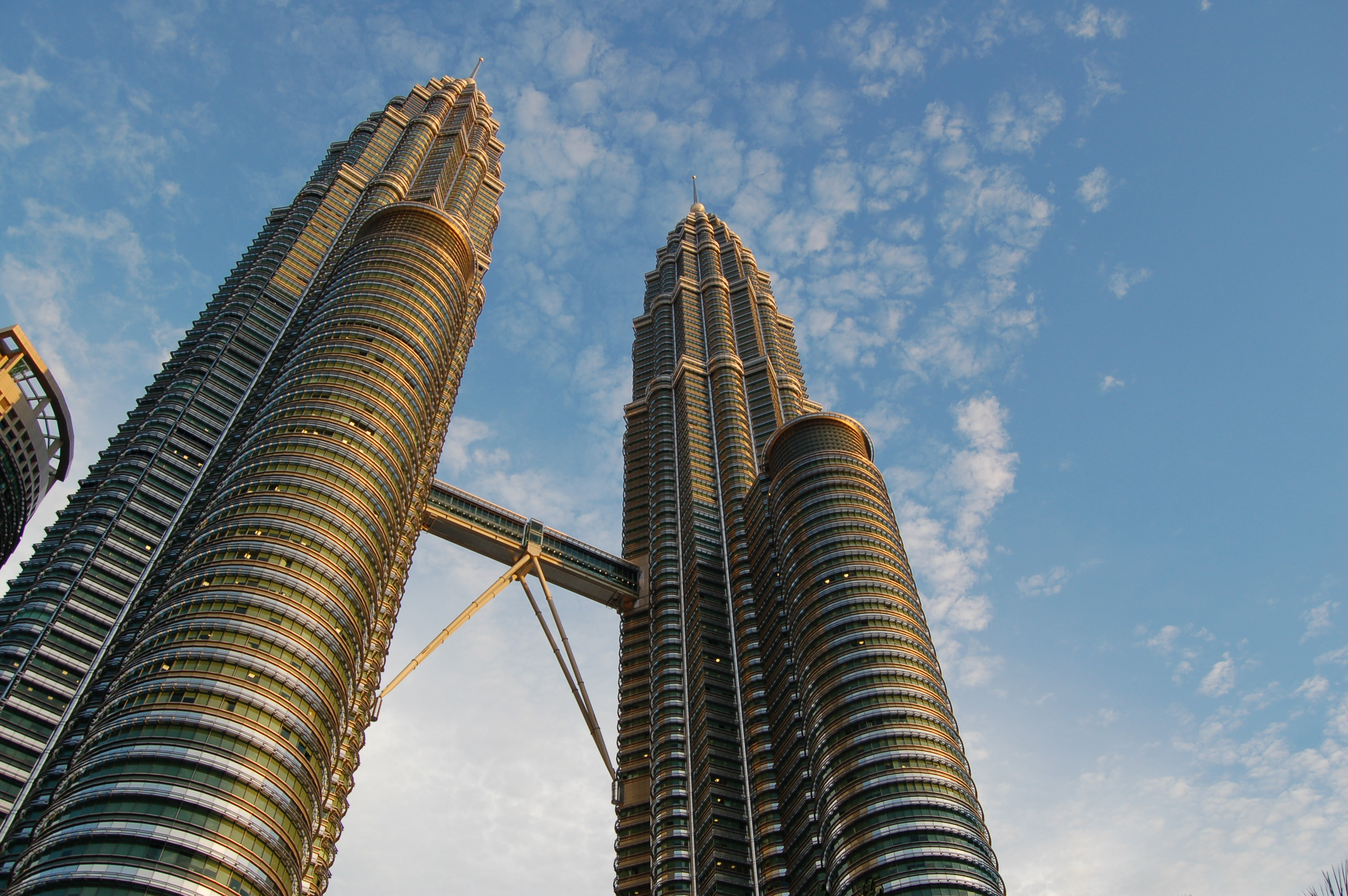 The Petronas Twin Towers, Kuala Lumpur, Malaysia.